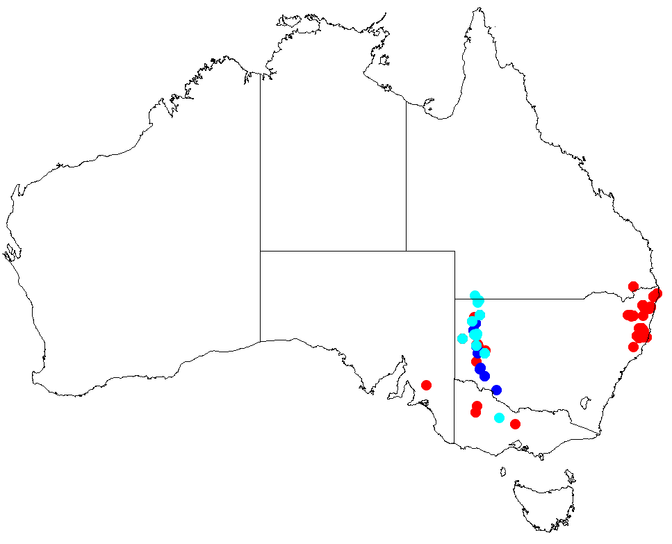 Hermann Beckler collection records Australasian Virtual Herbarium downloaded 30 September 2018. ( Red dots indicate undated records, Royal blue indicates 1860, cyan indicates 1861. Thus the blue and cyan indicate collections made during the Burke and Wills expedition